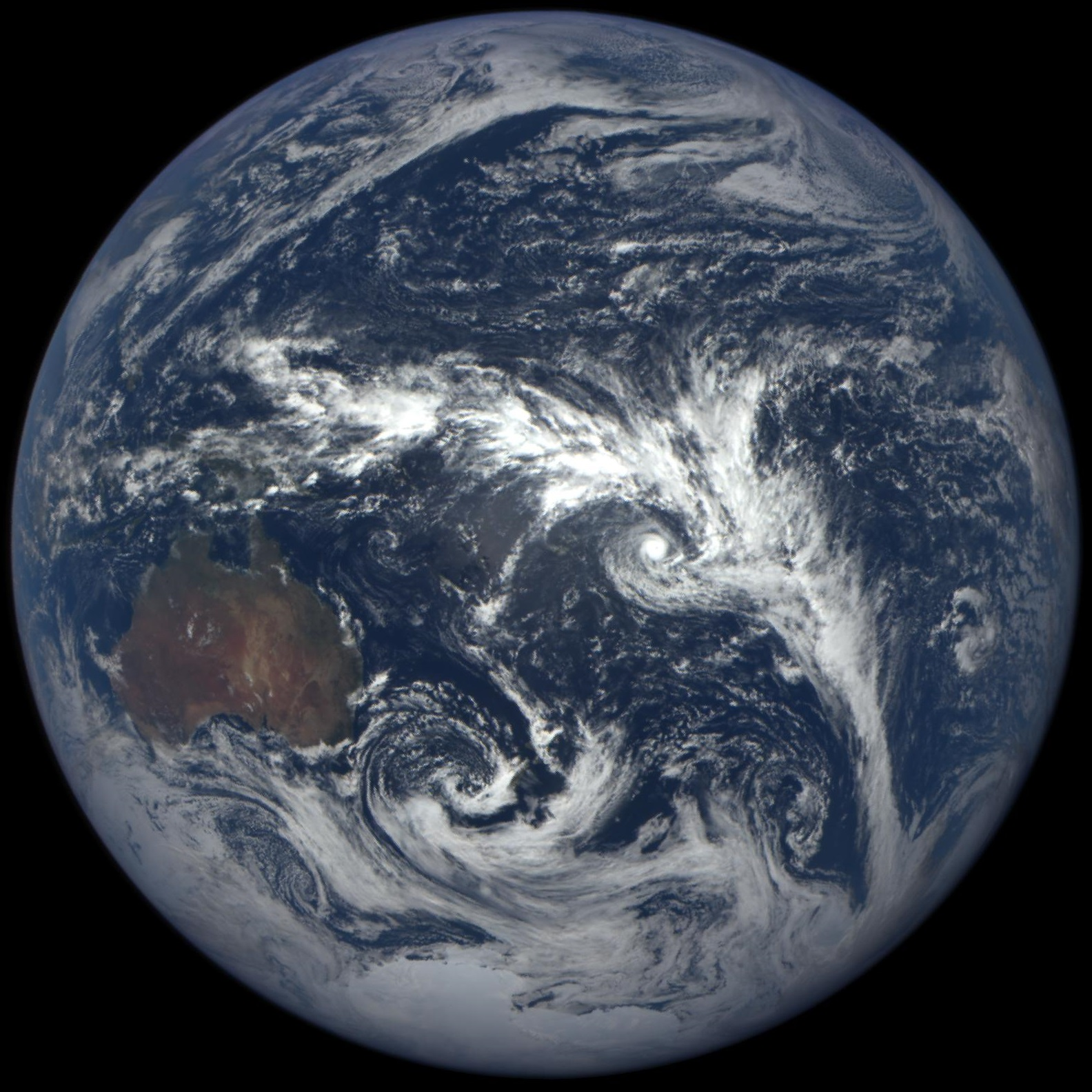 An image taken by the Earth Polychromatic Imaging Camera (EPIC), aboard the Deep Space Climate Observatory (DSCOVR). It was taken on February 18, 2016, at 00:41. It shows the South Pacific; Category 5 Tropical Cyclone Winston is prominently featured at right of center